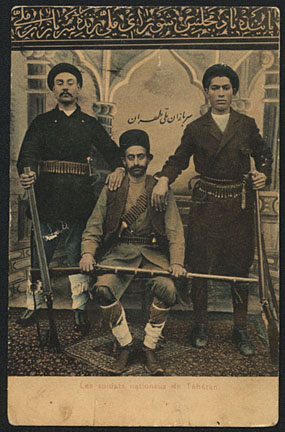 National Guards of Tehran, Iran. A postcard from the Qajar period. Photographs on this site are courtesy of Mr Bahman Jalali